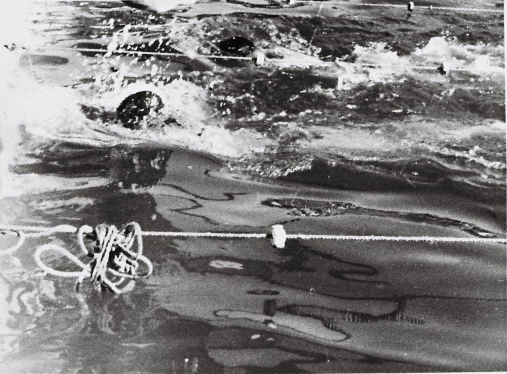 The first lap of the 100m breaststroke during the 2nd Maccabiah.